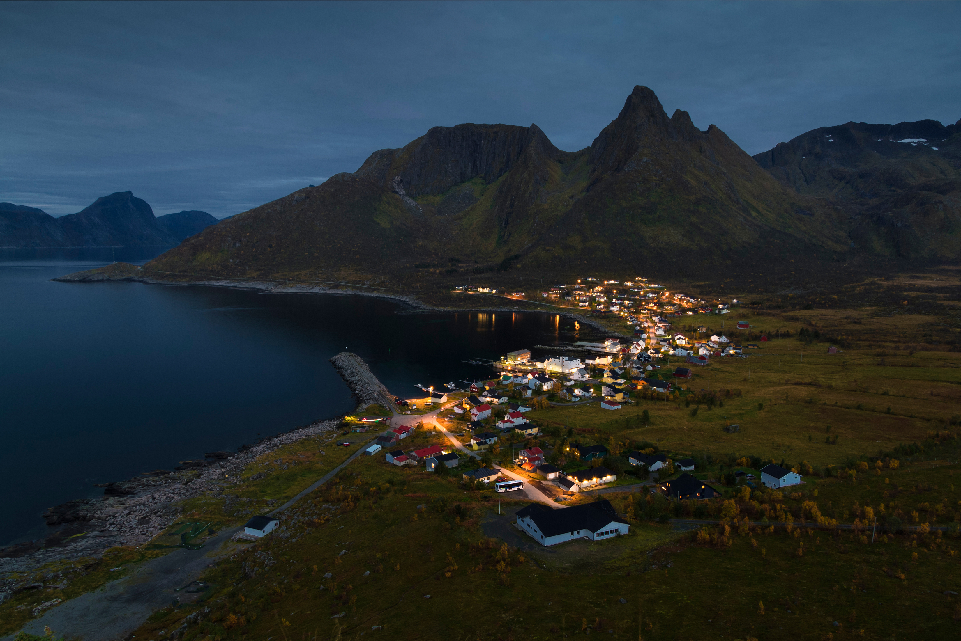 An evening view to Mefjordvær village from Knuten, Senja, Troms, Norway in 2015 September.